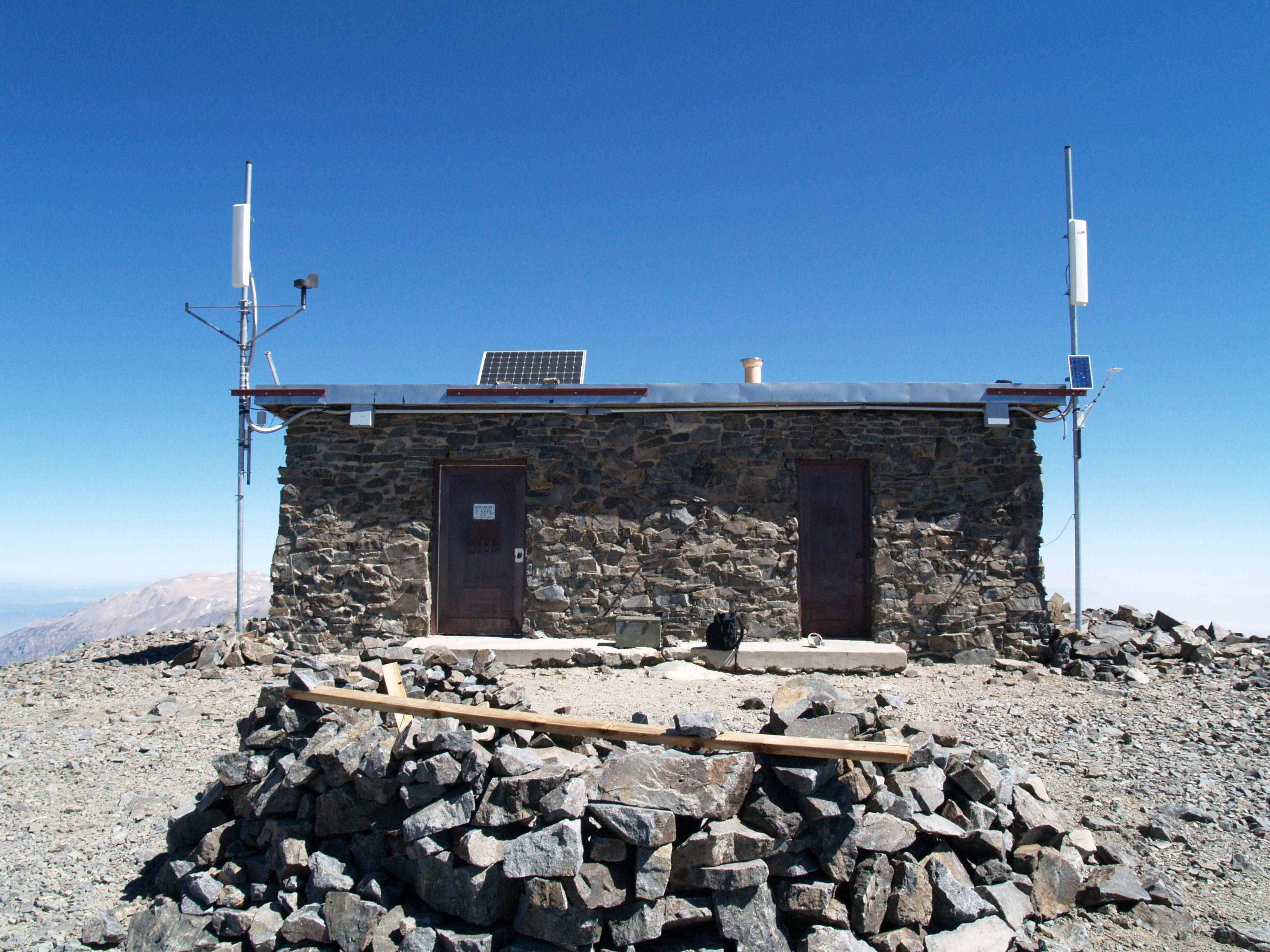 White Mountain Research Station Summit Lab (University of California) — White Mountains, eastern California.